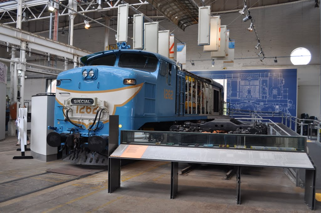 Sectioned locomotive 1262 at Workshops Rail Museum, North Ipswich, Queensland.